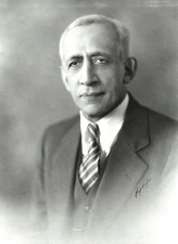 Edward Prentiss Costigan.